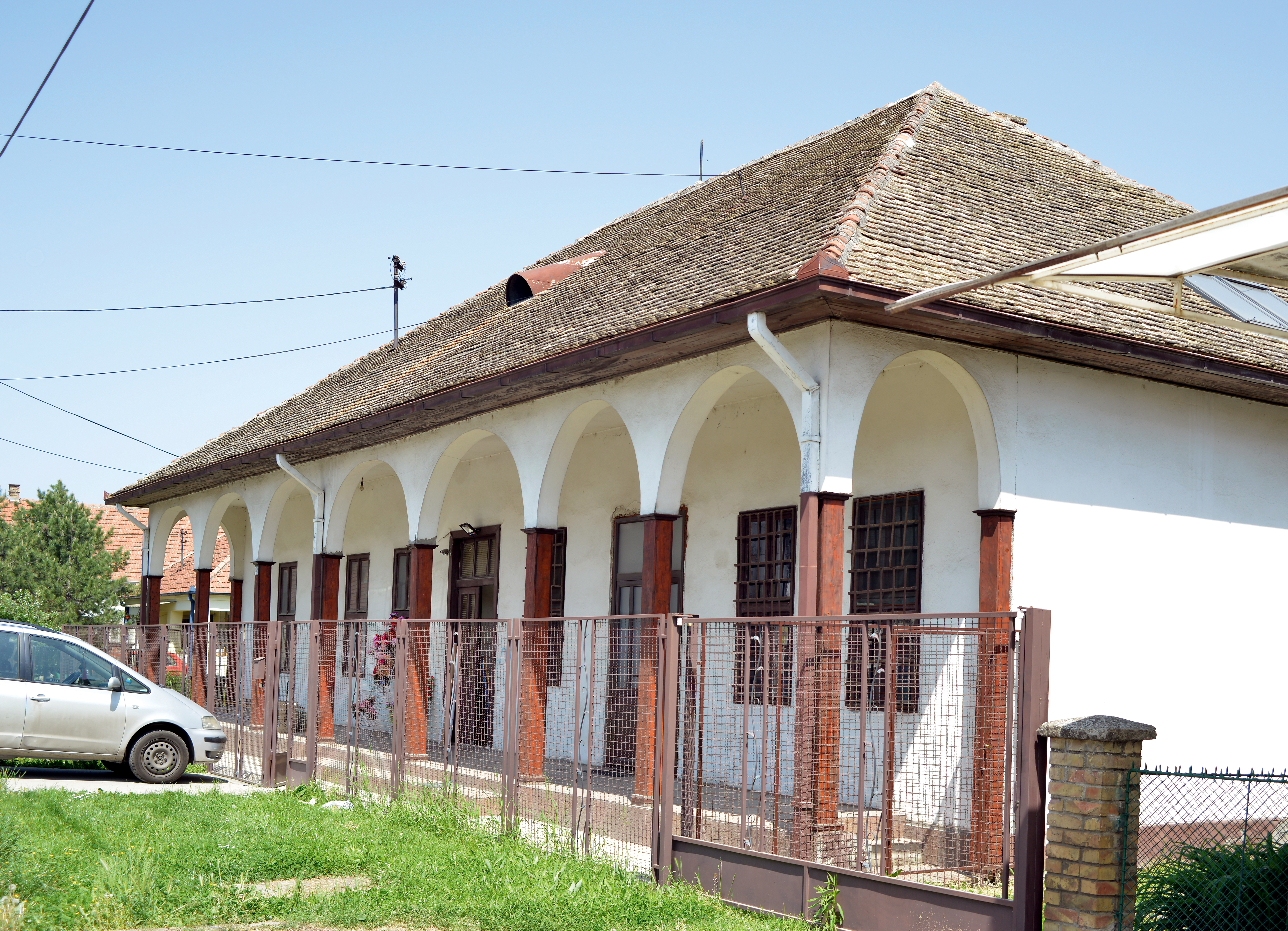 Janic Tavern, cultural heritage monument in Ostruznica, suburban settlement of Čukarica, a municipality of the city of Belgrade, Serbia